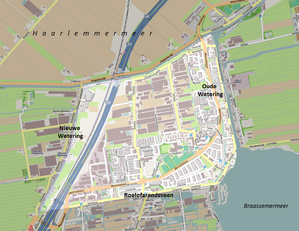 The Googer Polder (light part) in the municipality of 'Kaag en Braassem' (Province of South Holland, Netherlands). Situation in 2011. The polder has lost most of its rural character.